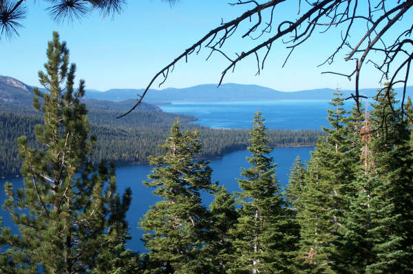 I took this photograph while climbing Angora Ridge Rd. to the Angora Lakes Resort on my bicycle in the Summer of 2003.